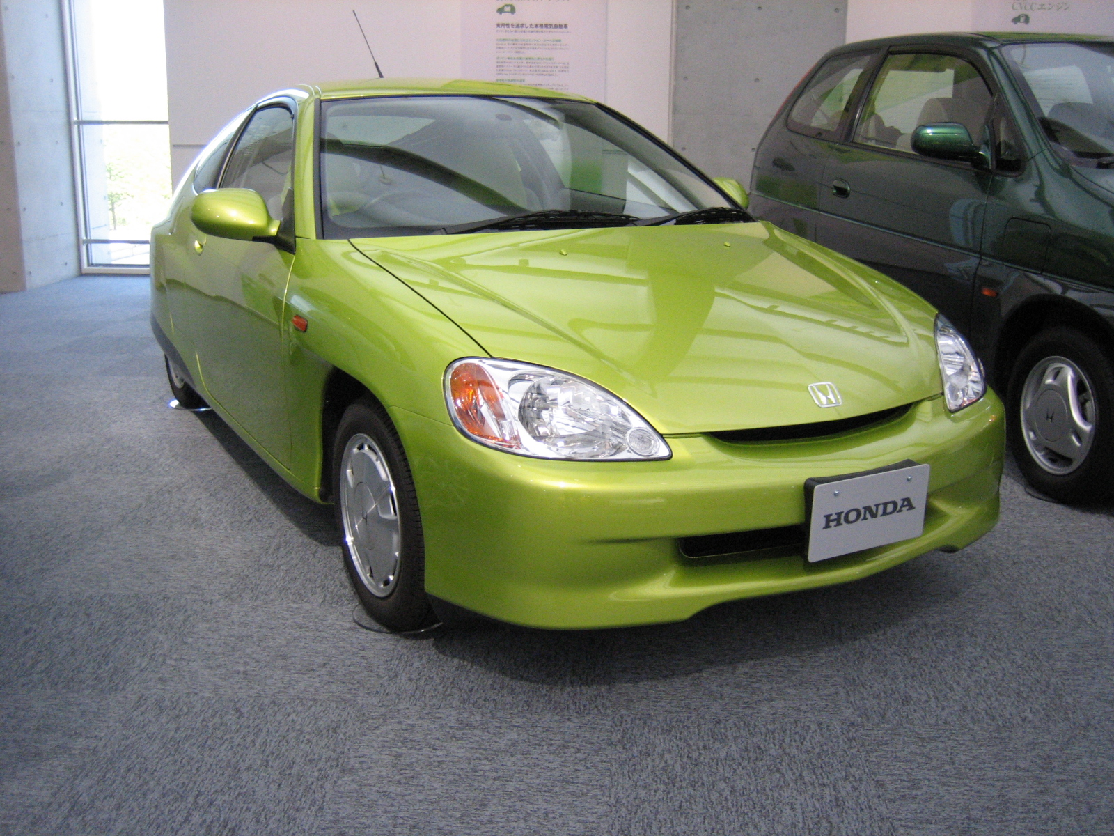 I photoed the Honda insight in the Honda collection hole.